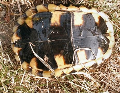 Cuora pani pani Female by Torsten Blanck